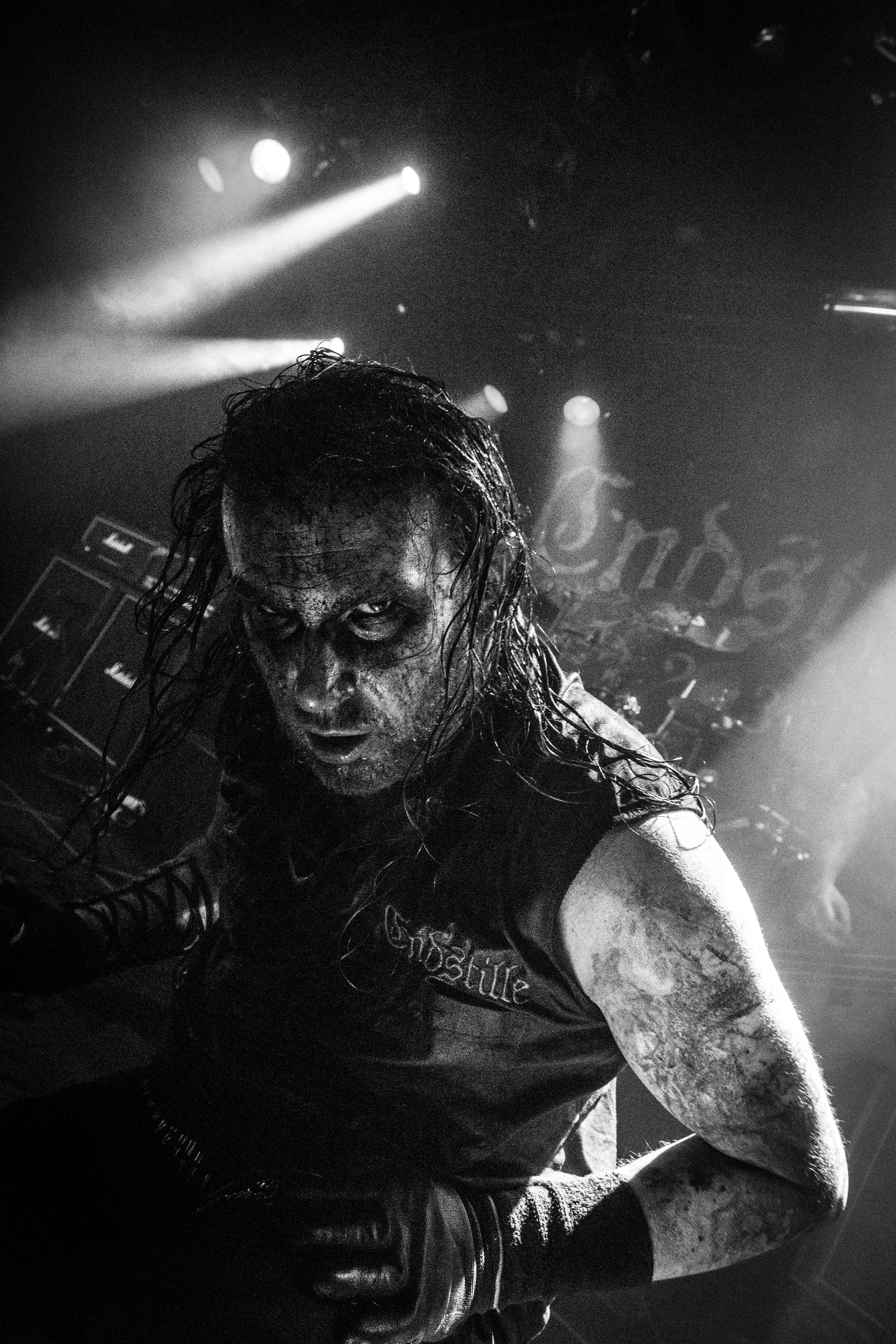 Endstille performing live at Eindhoven Metal Meeting, 2016